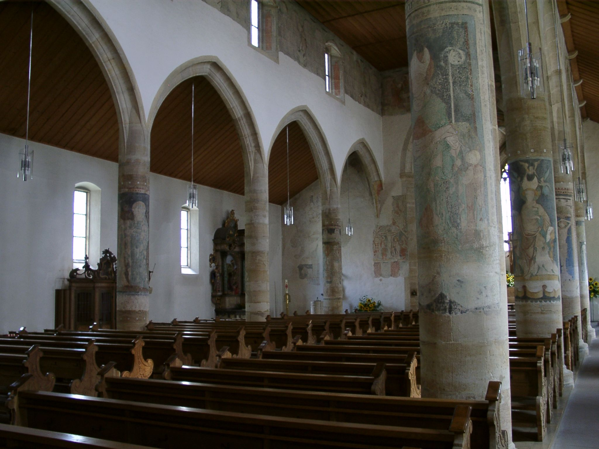 Stiftskirche St. Moriz (Collegiate Church Saint Maurice) in Rottenburg am Neckar (Ehingen quarter), administrative district of Tübingen, (State of Baden-Württemberg / Germany). Ancient Convent of Canons.